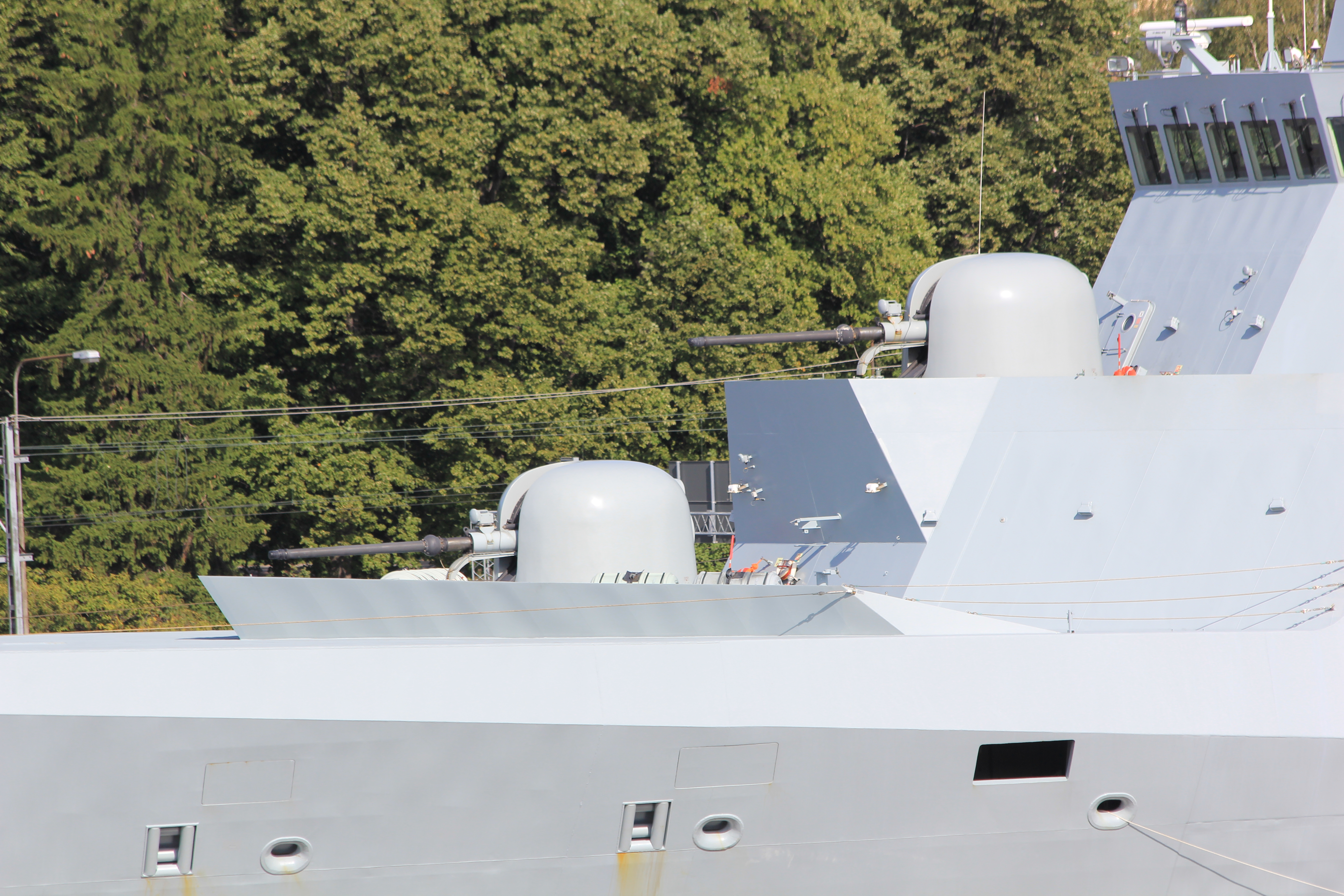 Forward superfiring 76 mm OTO-Melara guns of Danish Iver Huitfeldt-class frigate Peter Willemoes (F362) in Aura river in Turku during the Northern Coasts 2014 exercise public pre sail event.